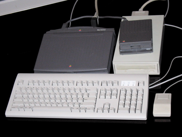 PowerBook Duo with Mini Dock and accessories.